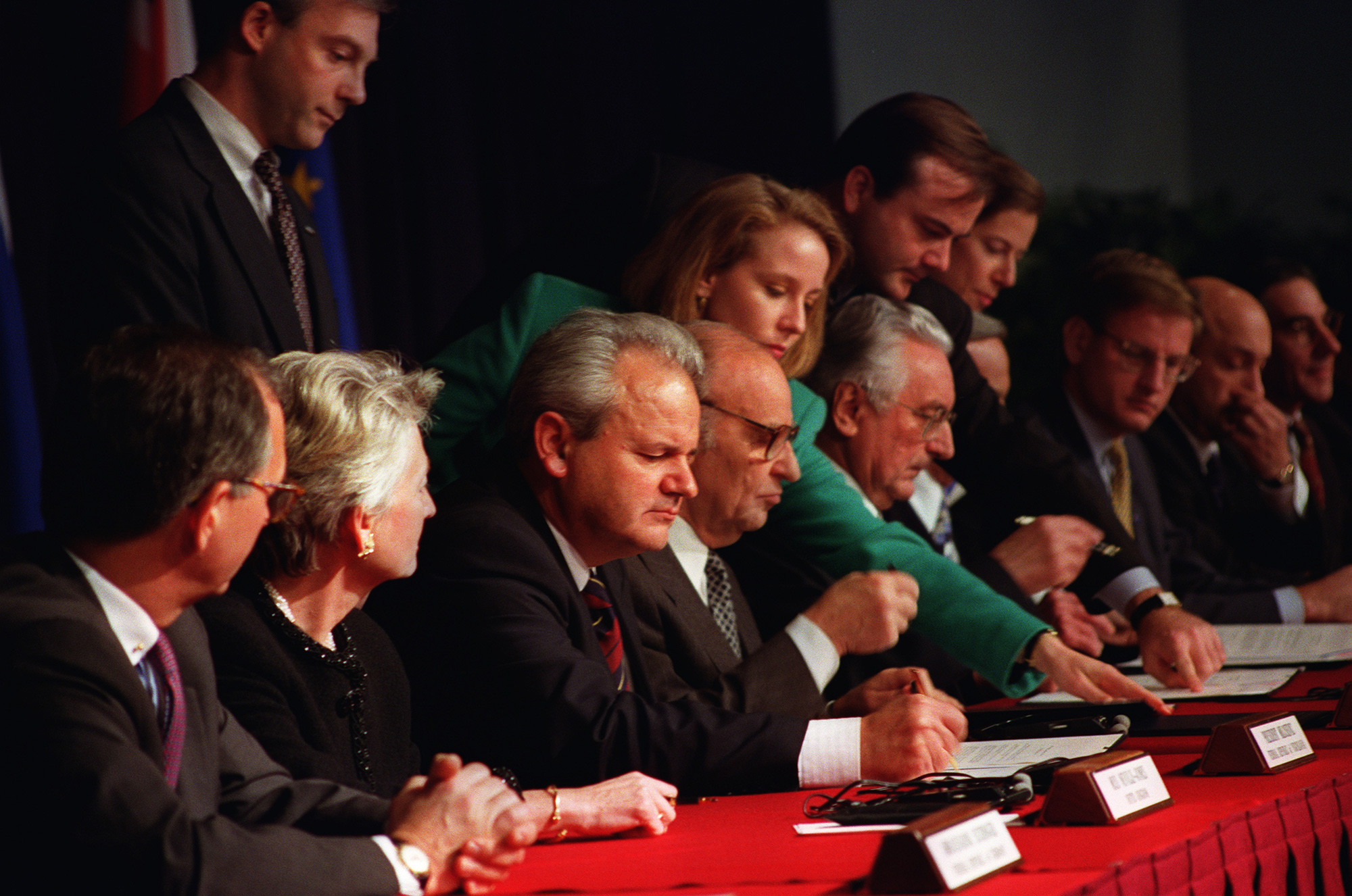 President Slobodan Milosevic of the Federal Republic of Yugoslavia, President Alija Izetbegovic of the Republic of Bosnia and Herzegovina, and President Franjo Tudjman of the Republic of Croatia initial the Dayton Peace Accords. The Balkan Proximity Peace Talks were conducted at Wright-Patterson Air Force Base Nov. 1-21, 1995. The talks ended the conflict arising from the breakup of the Republic of Yugoslavia. The Dayton Accords paved the way for the signing of the final “General Framework Agreement for Peace in Bosnia and Herzegovina” on Dec. 14 at the Elysee Palace in Paris.